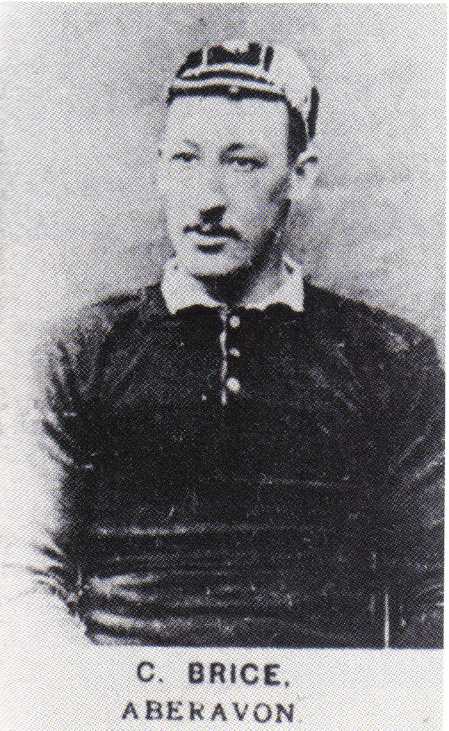 Alfred Brice Wales international rugby union player, circa 1900